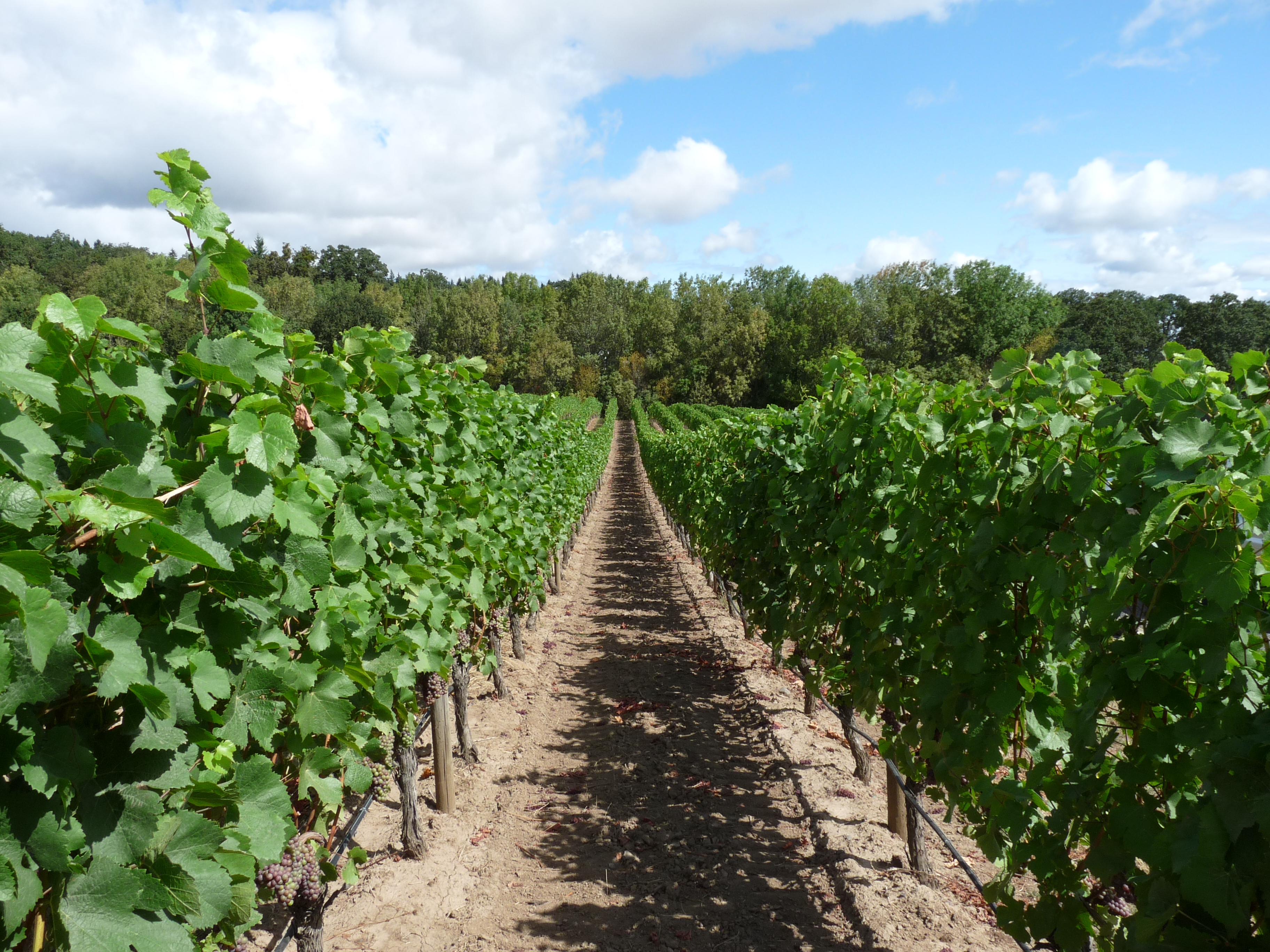 Pinot noir vineyard in the Willamette Valley wine region of Eola-Amity Hills. Also shows an example of clear (or bare soil) cultivation between the vines and rows with no cover crops.